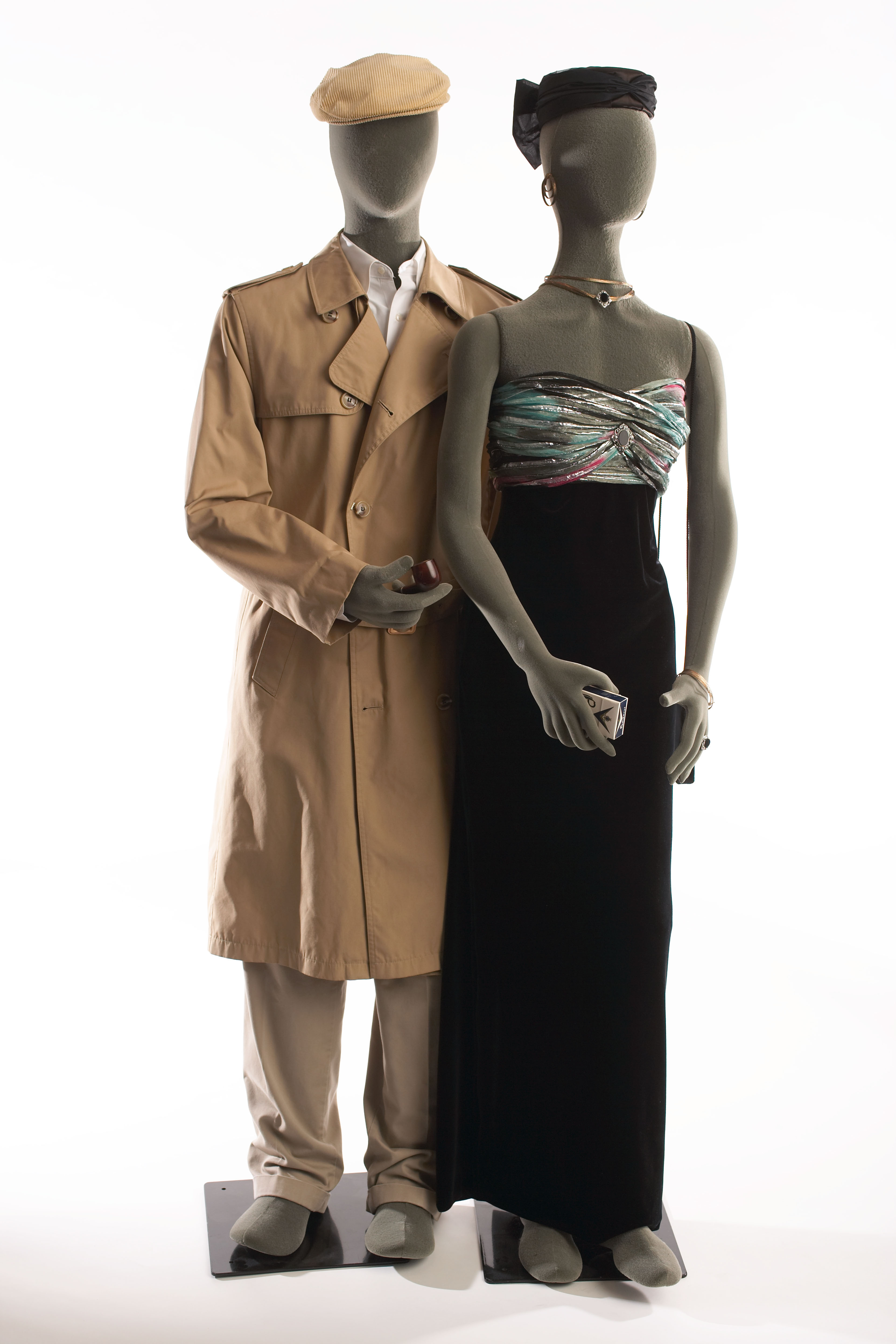 An intelligence officer’s clothing, accessories, and behavior must be as unremarkable as possible — their lives (and others’) may depend on it. This is a responsibility that operational artisans, technicians, and engineers of the Office of Technical Readiness (OTR) take seriously. America's intelligence officers can safely collect intelligence in hostile environments because they know that quality and craftsmanship have been "built in" to their appearances, leaving no traces to alert the enemy.